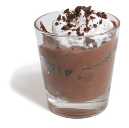 A light chocolatey dessert ... I love it chilled ... Ingredients For the chocolate mousse 2 ¾oz chocolate, melted 7 fl oz double cream, whipped For the caramelised oranges 2 tbsp butter 3 tbs p caster sugar 2 oranges, peeled and segmented Method 1. To make the chocolate mousse, melt the chocolate in a glass bowl over simmering water. 2. Whip the cream until soft peaks form. 3. Mix the two together to form a marble effect. Be careful not to overmix them. 4. Put into a tall glass. 5. For the oranges, in a medium saucepan heat the butter and the sugar together to form a caramel. 6. Add the oranges and continue to cook for two minutes. 7. Place in a small glass dish and serve with the chocolate mousse. See the recipe and instructions on our site